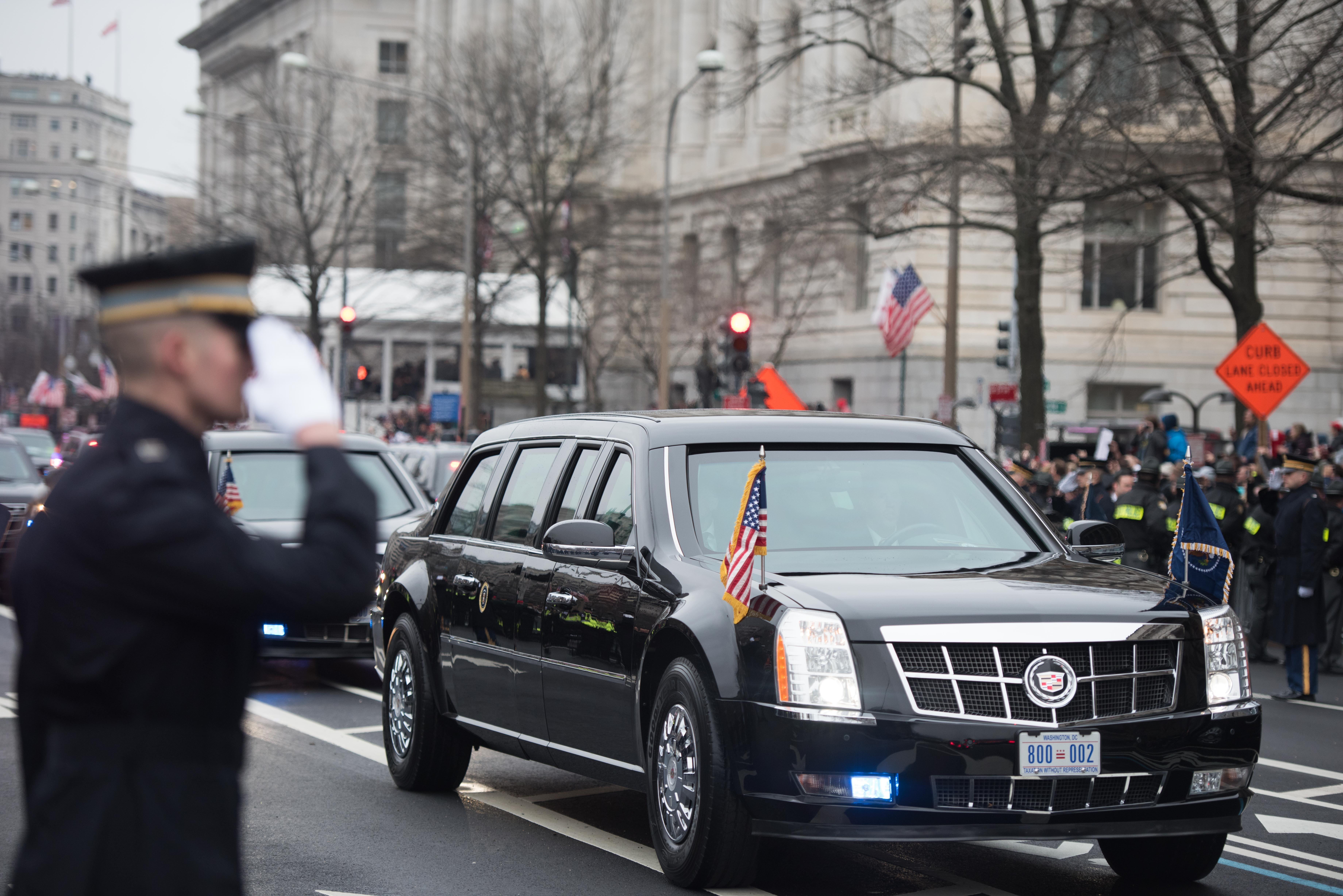 A soldier from the 3d Infantry Regiment (The Old Guard) salutes President Trump as his motorcade passes in the 58th Presidential Inaugural parade in Washington D.C., January 20, 2017. U.S. Armed Forces personnel provide ceremonial support to the 58th Presidential Inaugural during the Inaugural period. This support comprises musical units, marching elements, color guards, salute batteries, and honor cordons, which render appropriate ceremonial honors to the Commander-In-Chief. (U.S. Army photo by Pvt. Gabriel Silva)